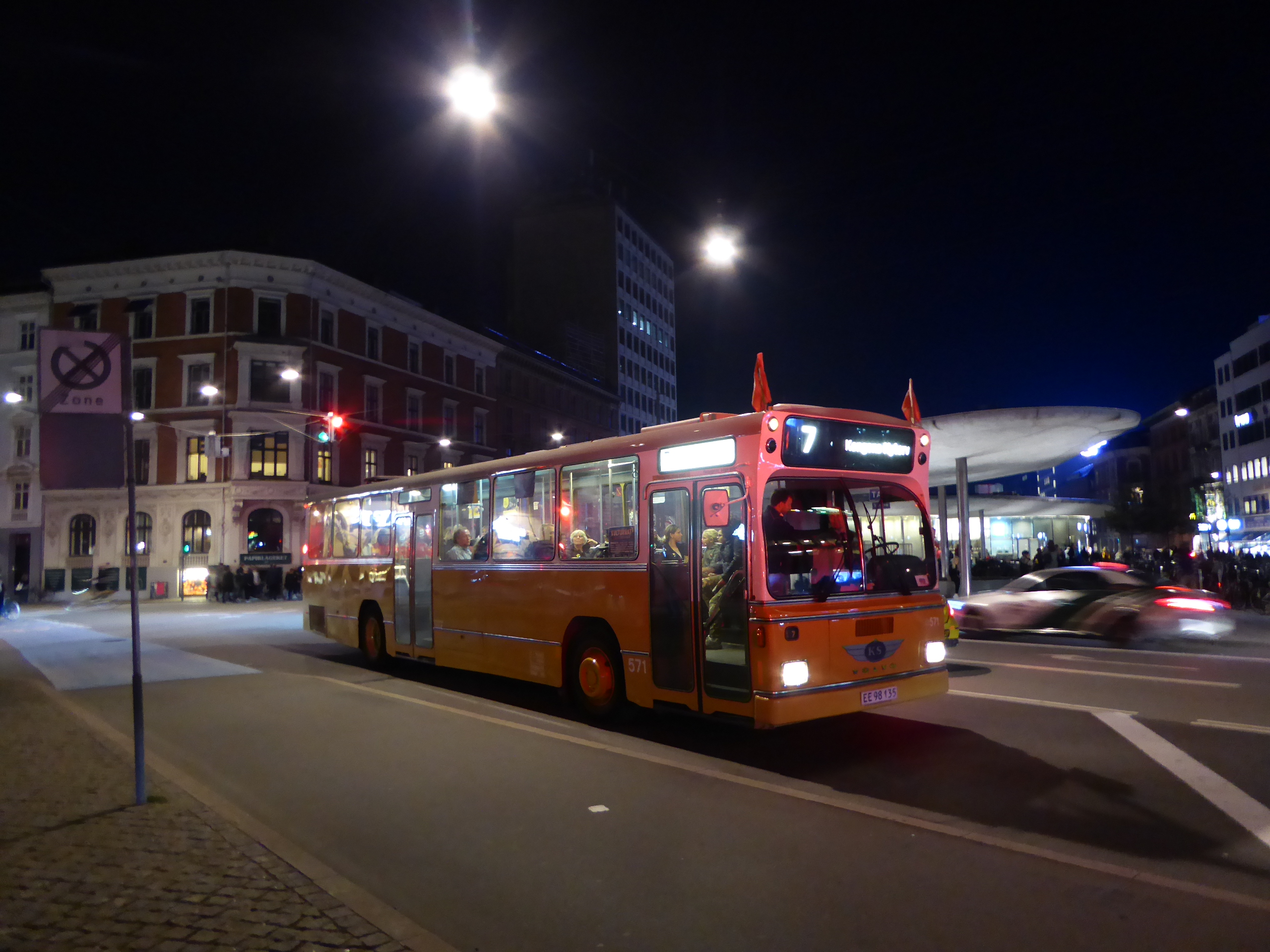 Old bus from 1972, KS 571, at Nørreport Station in Indre By in Copenhagen. The bus now belongs to Sporvejsmuseet Sporvejsmuseum but it was used on a special circle route together with buses of the museum during the annual Kulturnatten (the Night of Culture).